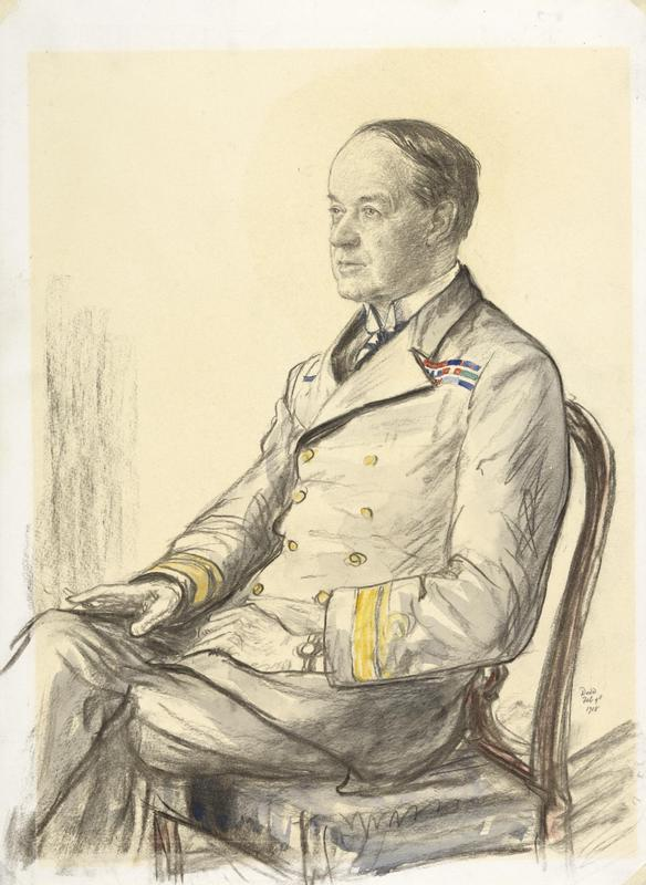 Rear-admiral Mark Kerr, Cb, Mvo image: a three quarter length portrait of Rear Admiral Mark Kerr in Royal Navy uniform, sitting on a chair with his hands on his lap, a cigarette in his right hand.